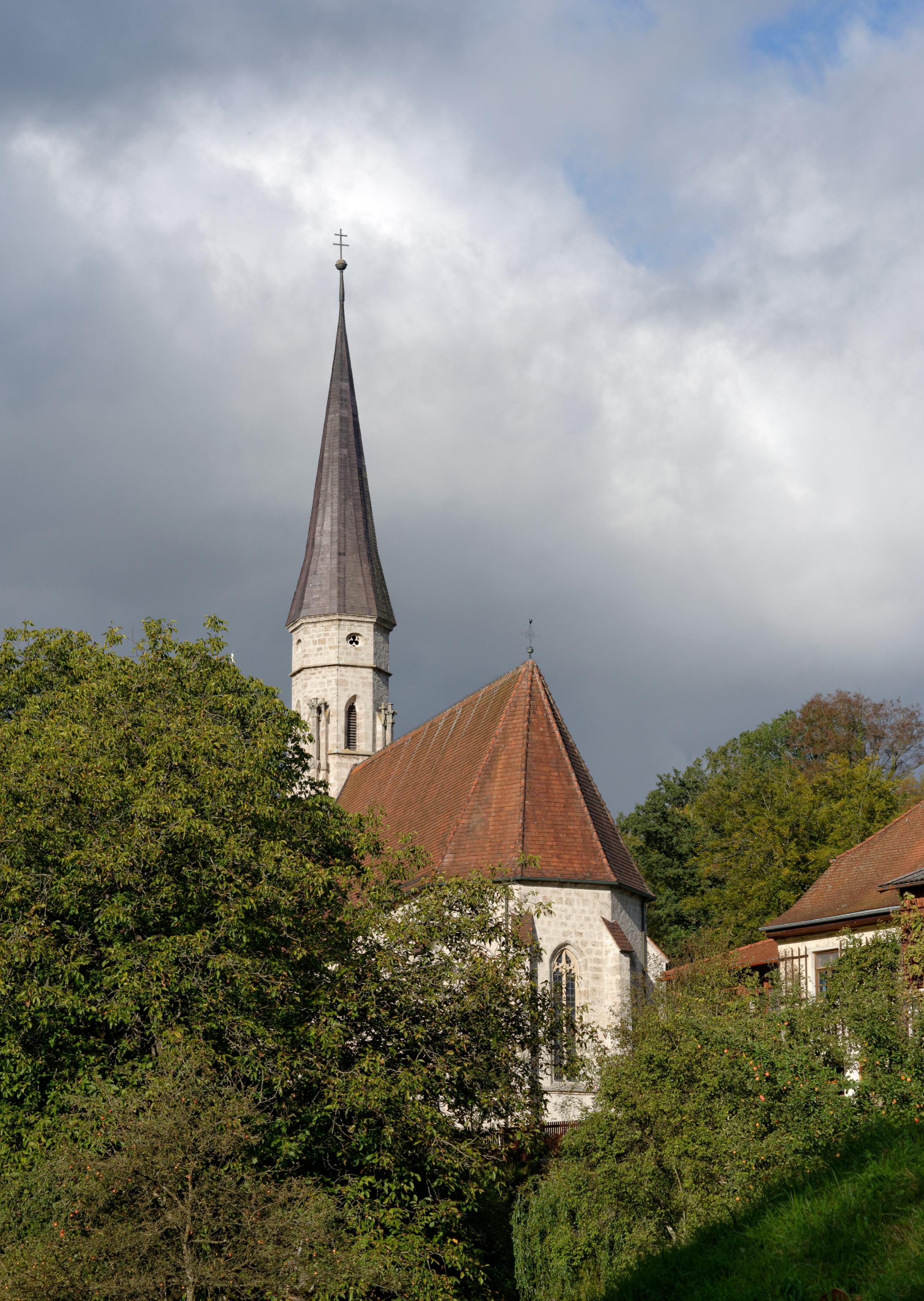 This is a photograph of an architectural monument.